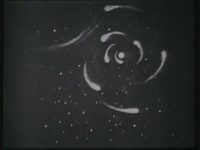 Evolution, 1925 film by Max and Dave Fleischer, the planets accumulate